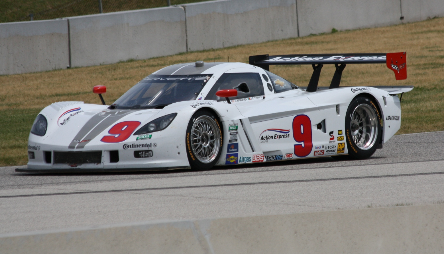 The Action Express Racing Daytona Prototype driven by Joao Barbosa, JC France and Darren Law at a 2012 race at Road America.